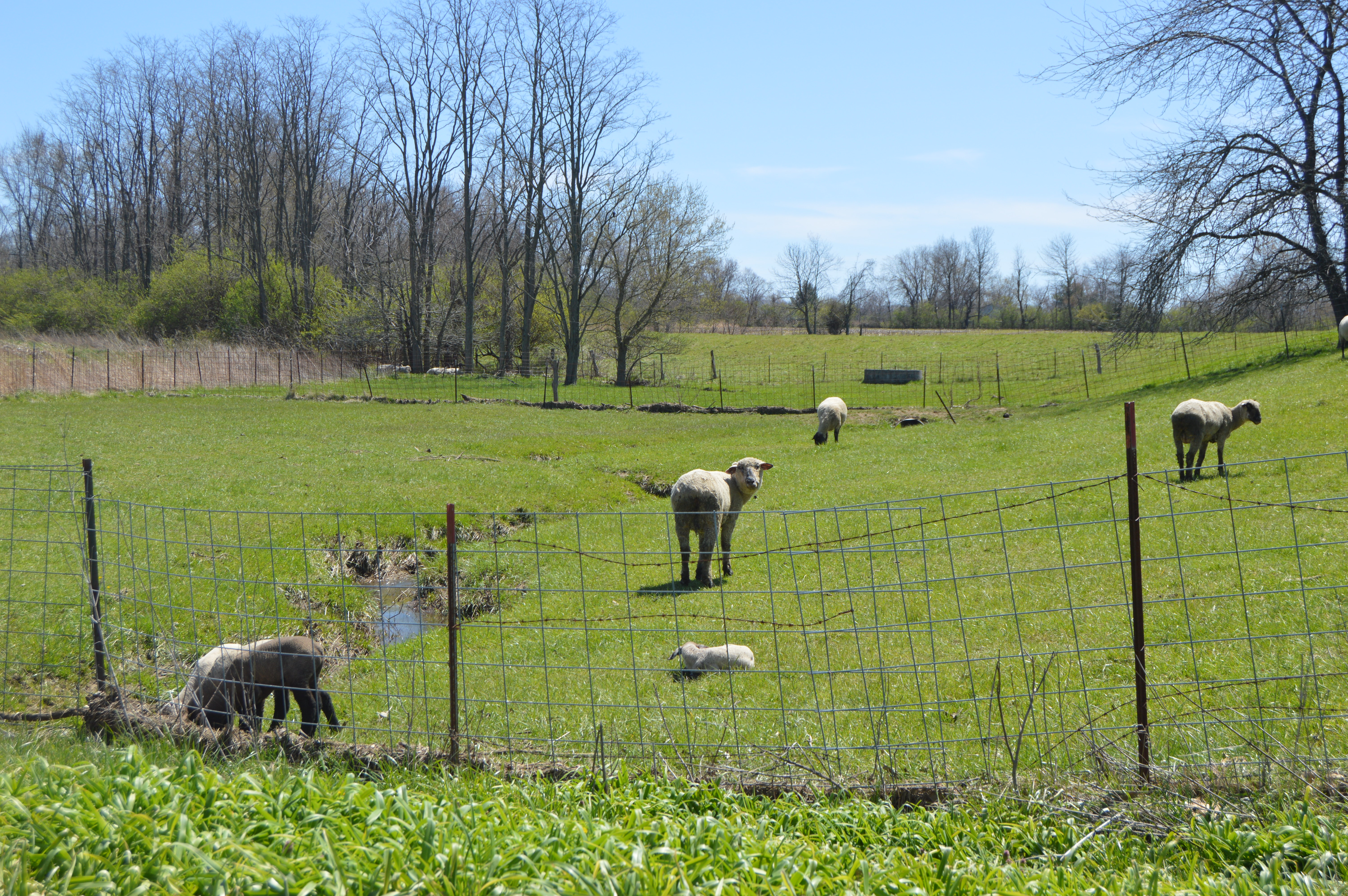 Sheep in a small brookside pasture on Fisher Road in northern Union Township, Highland County, Ohio, United States.